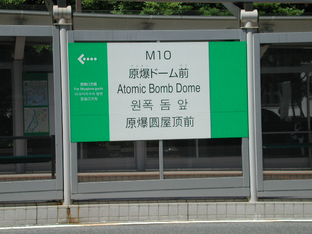 Hiroshima Electric Railway Genbaku Dome Mae (Atomic Bomb Dome) Station signboard, written in four languages